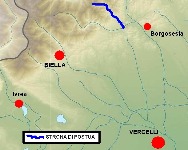 Location within central Piedmont (NW Italy)